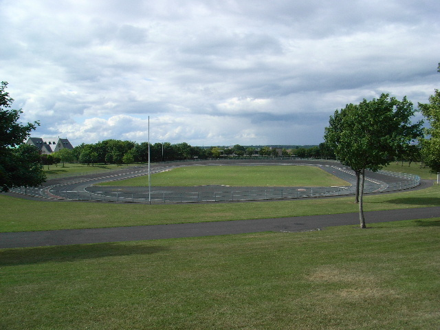 Athletic & Cycle Track in Éamonn Ceannt Park